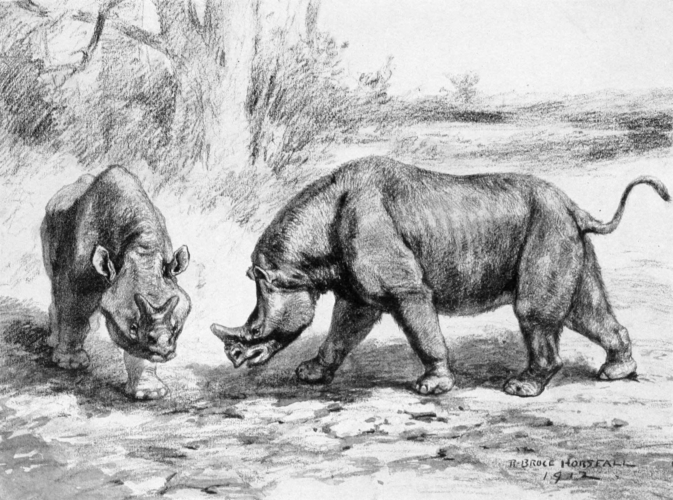 Megacerops (Titanotherium) robustum.